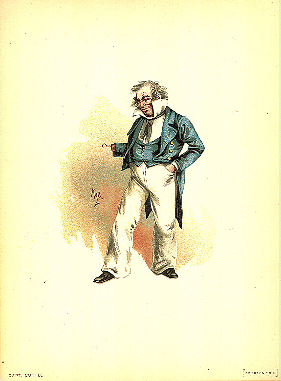 From "Character Sketches from Charles Dickens, Pourtrayed by Kyd", or "The Characters of Charles Dickens Pourtrayed in a Series of Original Water Colour Sketches by Kyd." Scanned and archived at where it was marked as Public Domain.